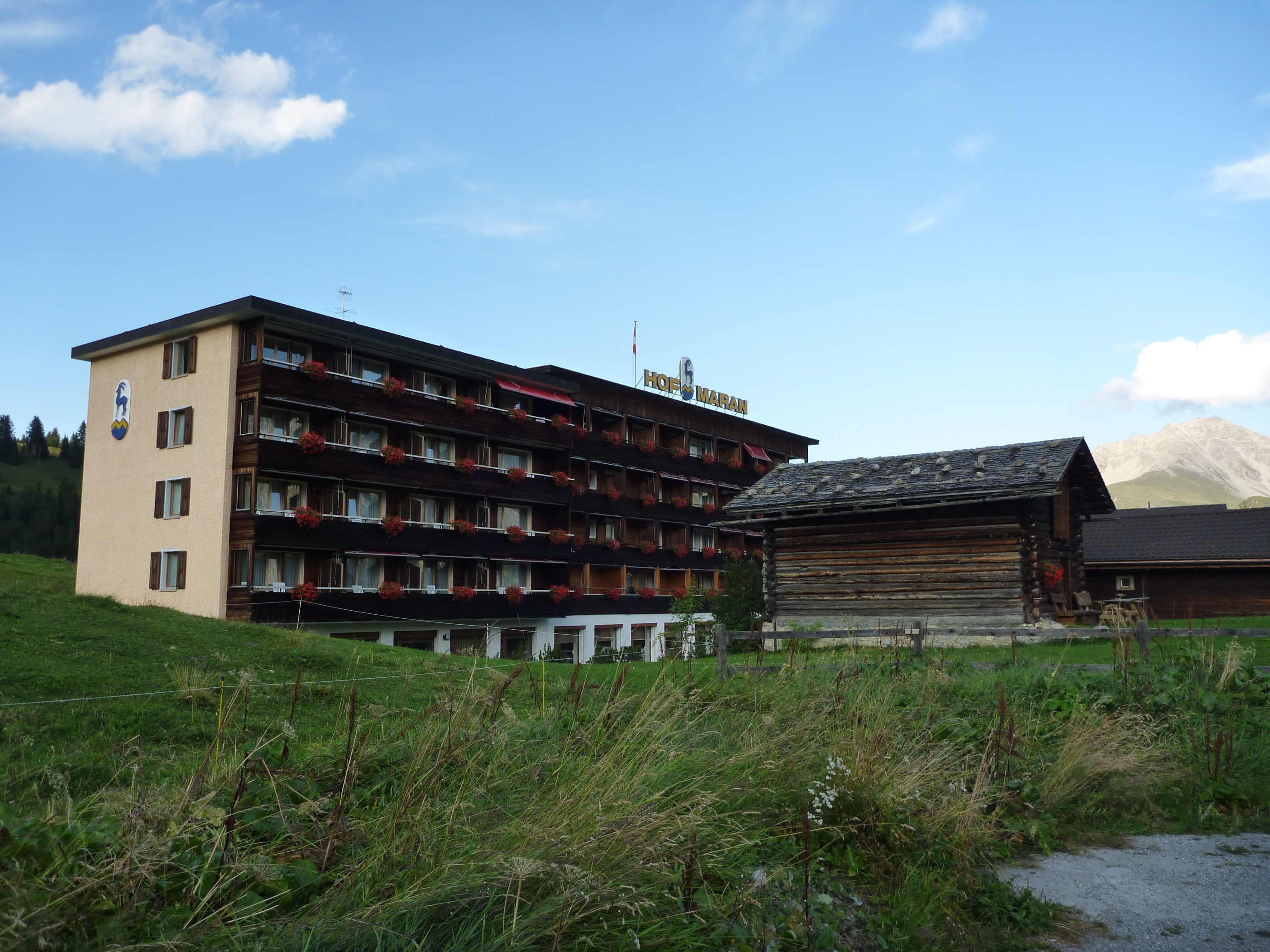 Golf- and Sporthotel Maran, Arosa, Switzerland